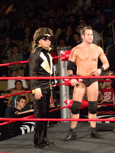 Roderick Strong (right) with his manager Truth Martini at Showdown in the Sun Night 2 on March 31, 2012. Cropped from original.